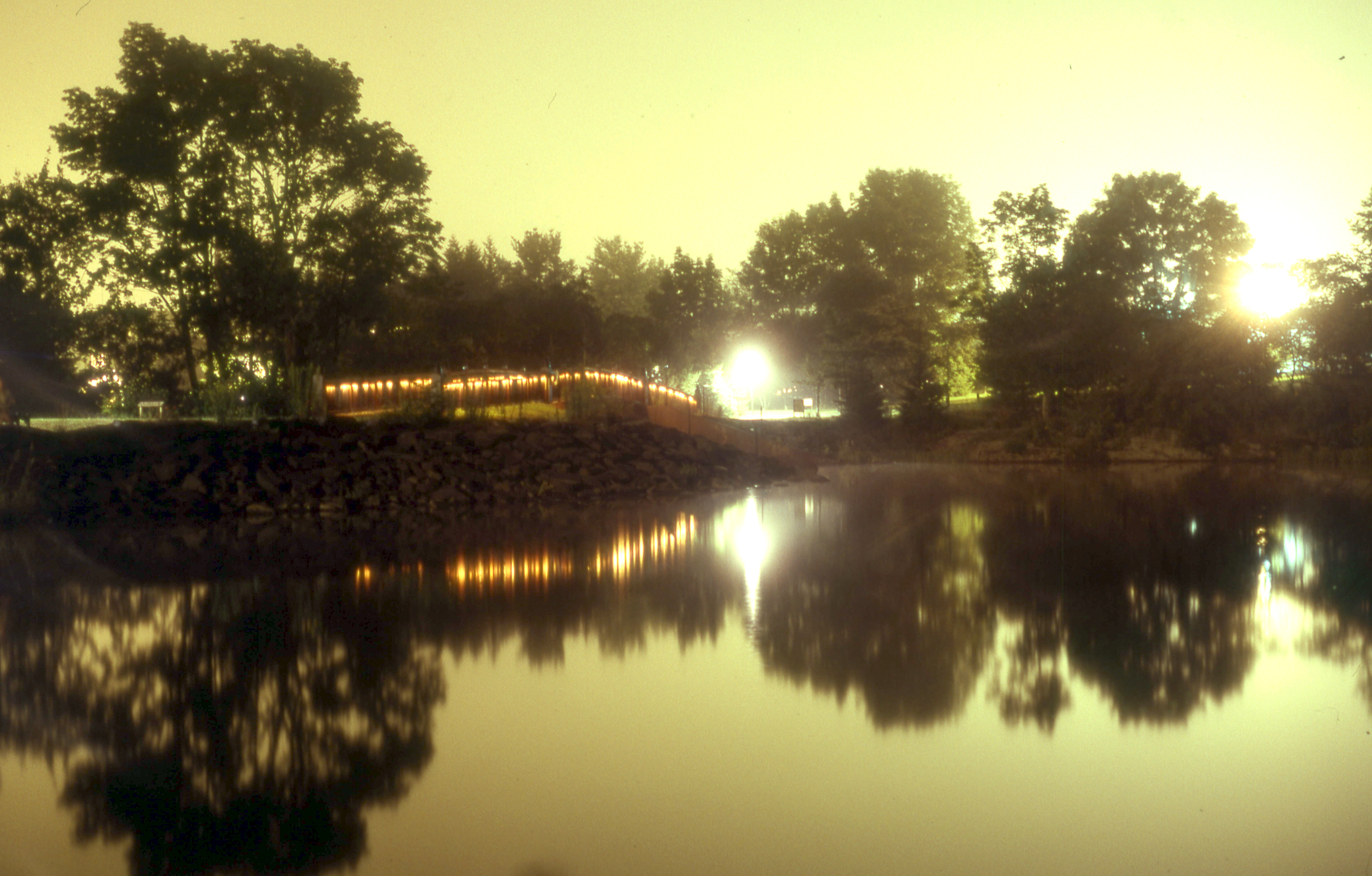 lake nityananda, fallsburg, new york